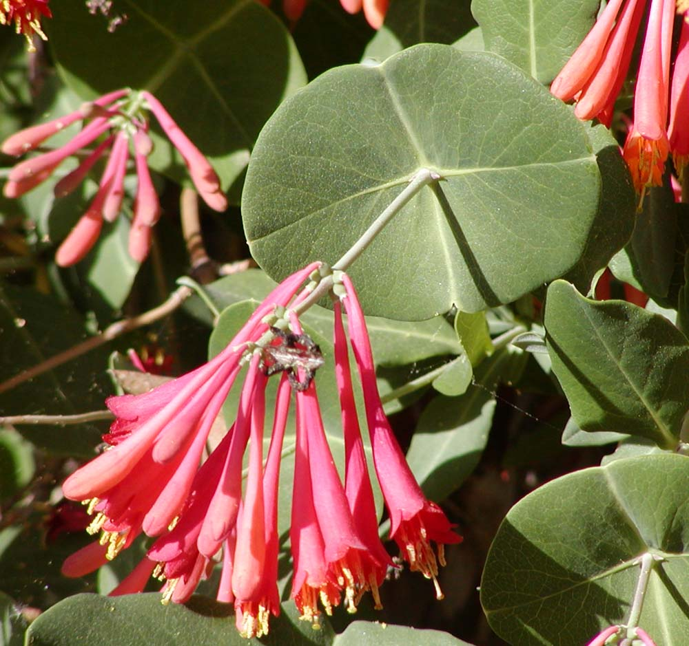 Photo of Lonicera sempervirens (Trumpet Honeysuckle) at the Desert Demonstration Garden in Las Vegas